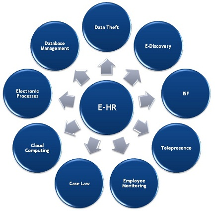 Diagram representing the different aspects of E-HR